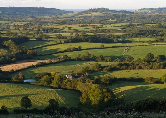 Revelshay Farm Looking down on the farm from a field close to Farthings Brake Coppice. The field forms a conservation walk adjacent to bridleway W32W22W38/7, which carries the Wessex Ridgeway down from Templeman's Ash into the Marshwood Vale. This forms the backdrop to the picture, with Conegar Hill rising beyond, and the sea visible on either side of it.